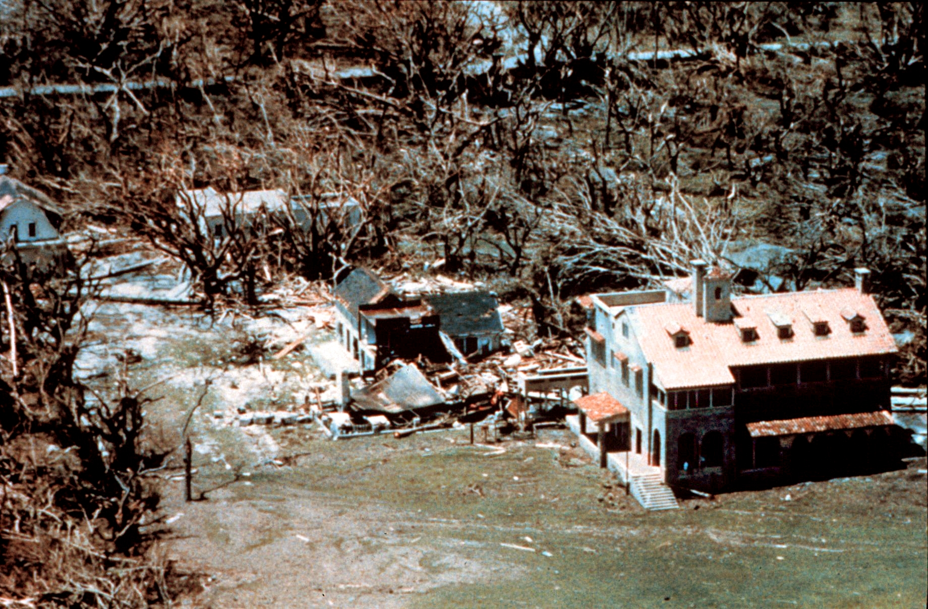 Text from source: Hurricane Andrew - Buildings on the Deering Estate Still-water marks from storm surge measured at 16.5 feet